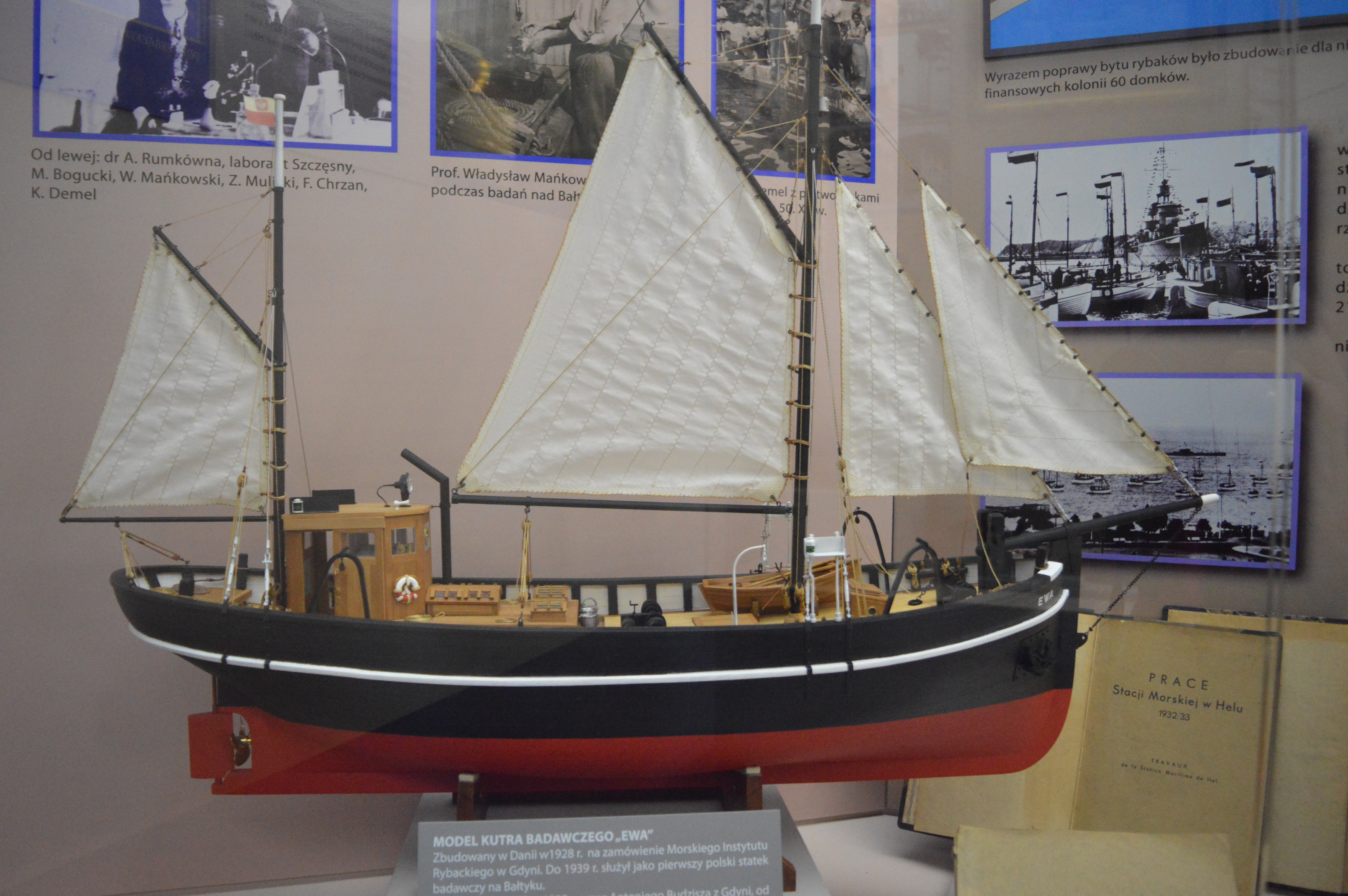 Model of ship in Fishery Museum in Hel, Poland. Model of research ship "Ewa" of Morski Instytut Rybacki. Ship was built in 1928 and used till 1939.